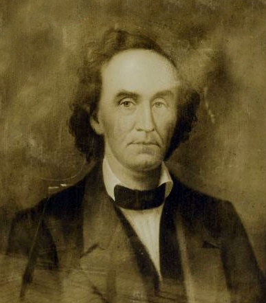 Claiborne Fox Jackson, the Democratic governor of Missouri in 1861, Bryan Obear Collection, The State Historical Society of Missouri